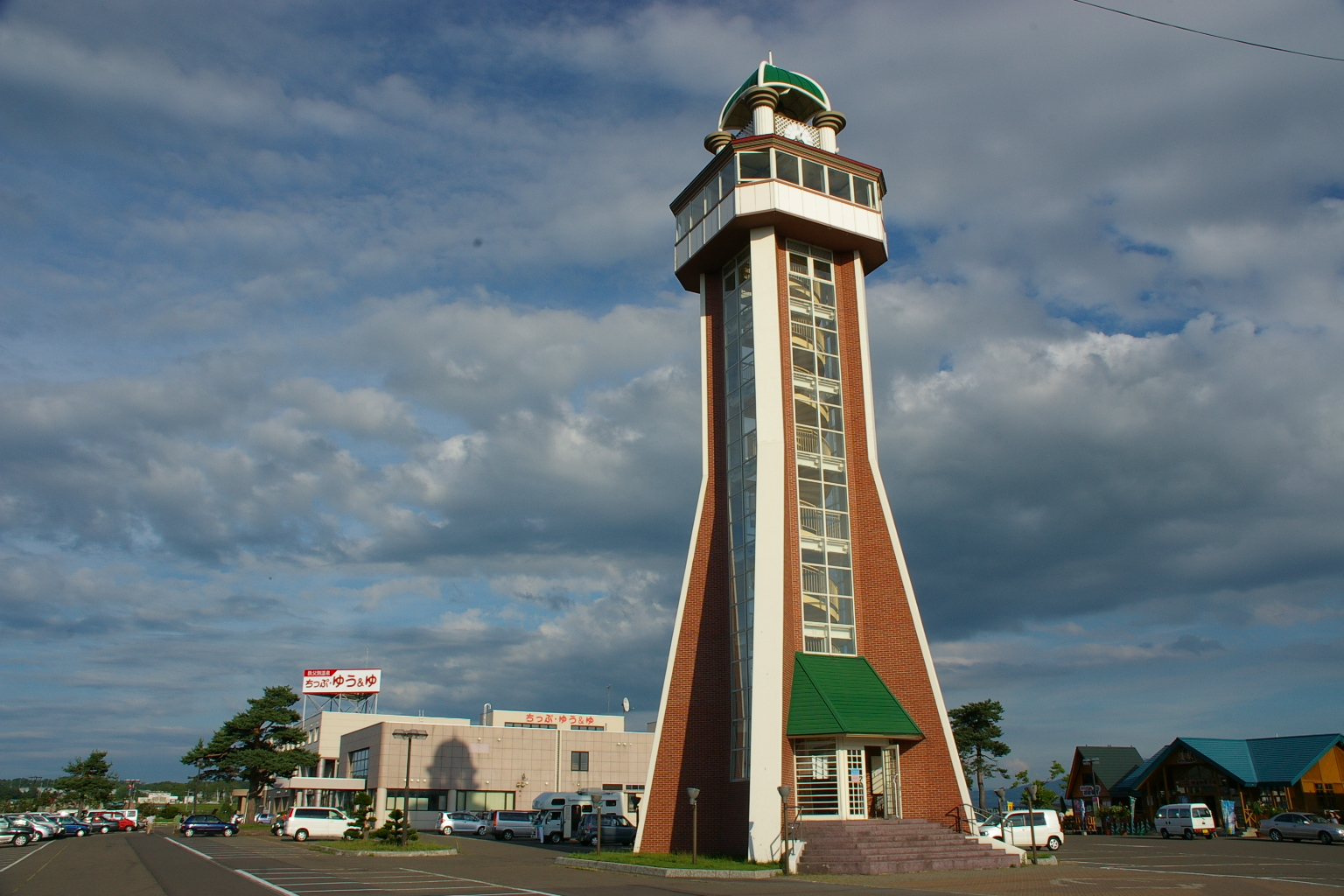 Chippubetsu 100year commemoration tower in Chippubetsu town hokkaido.